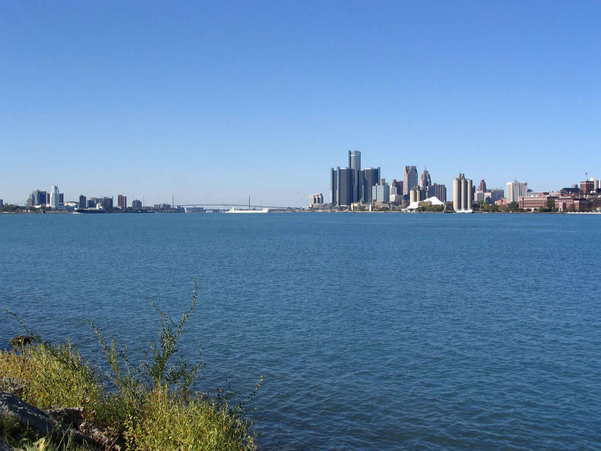 Windsor, Ontario (left) and downtown Detroit, Michigan (right) connected by the Ambassador Bridge. Picture taken October 4, 2004 by Matt314 from Belle Isle.